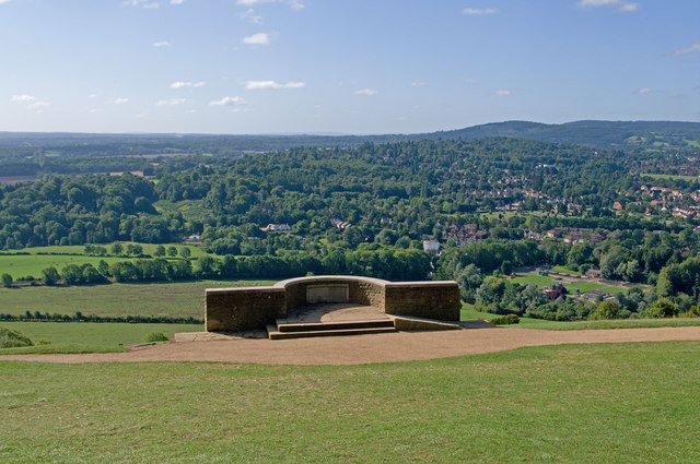 Salomons Memorial viewpoint at Box Hill, Surrey. Views over Dorking and Leith Hill.